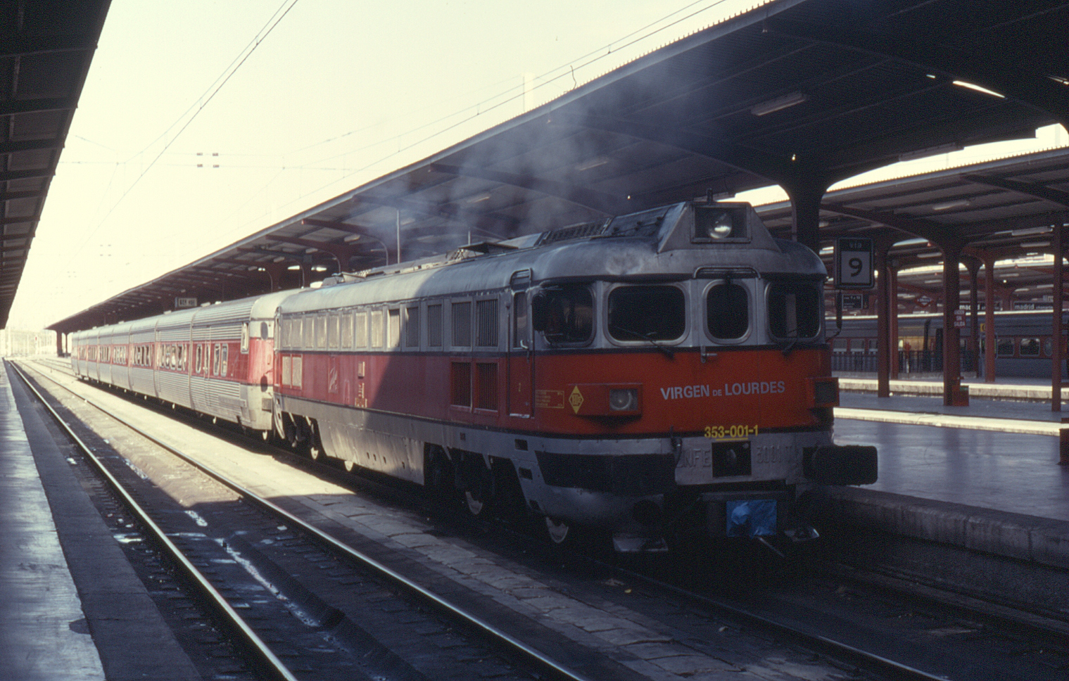 353.001 "Virgen de Lourdes" at Madrid Chamartín, 6 November 1991 on train 190, 15:45 Madrid Chamartín to Badajoz.